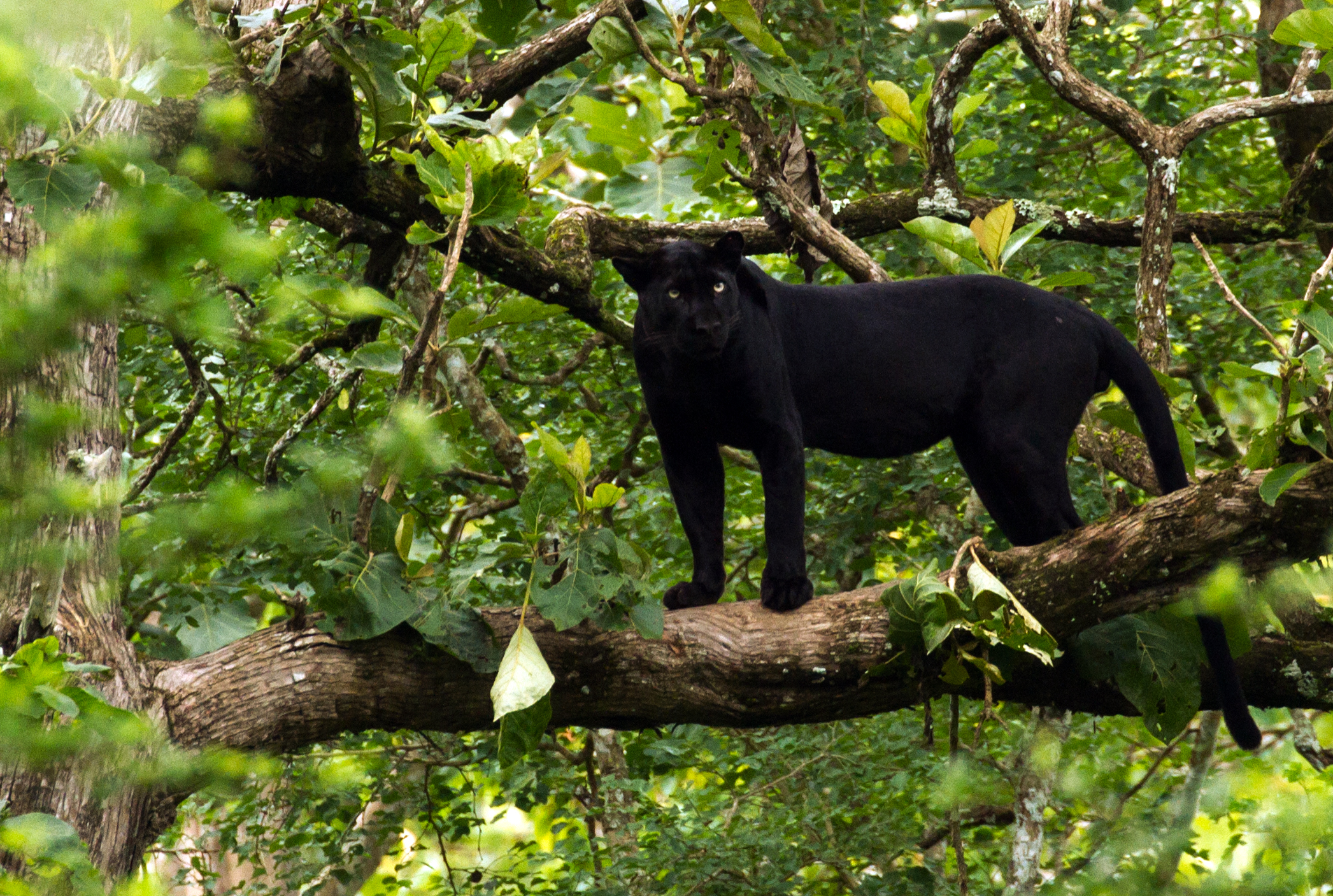 Black Panther, melanistic Panthera pardus, at Nagarhole National Park, India